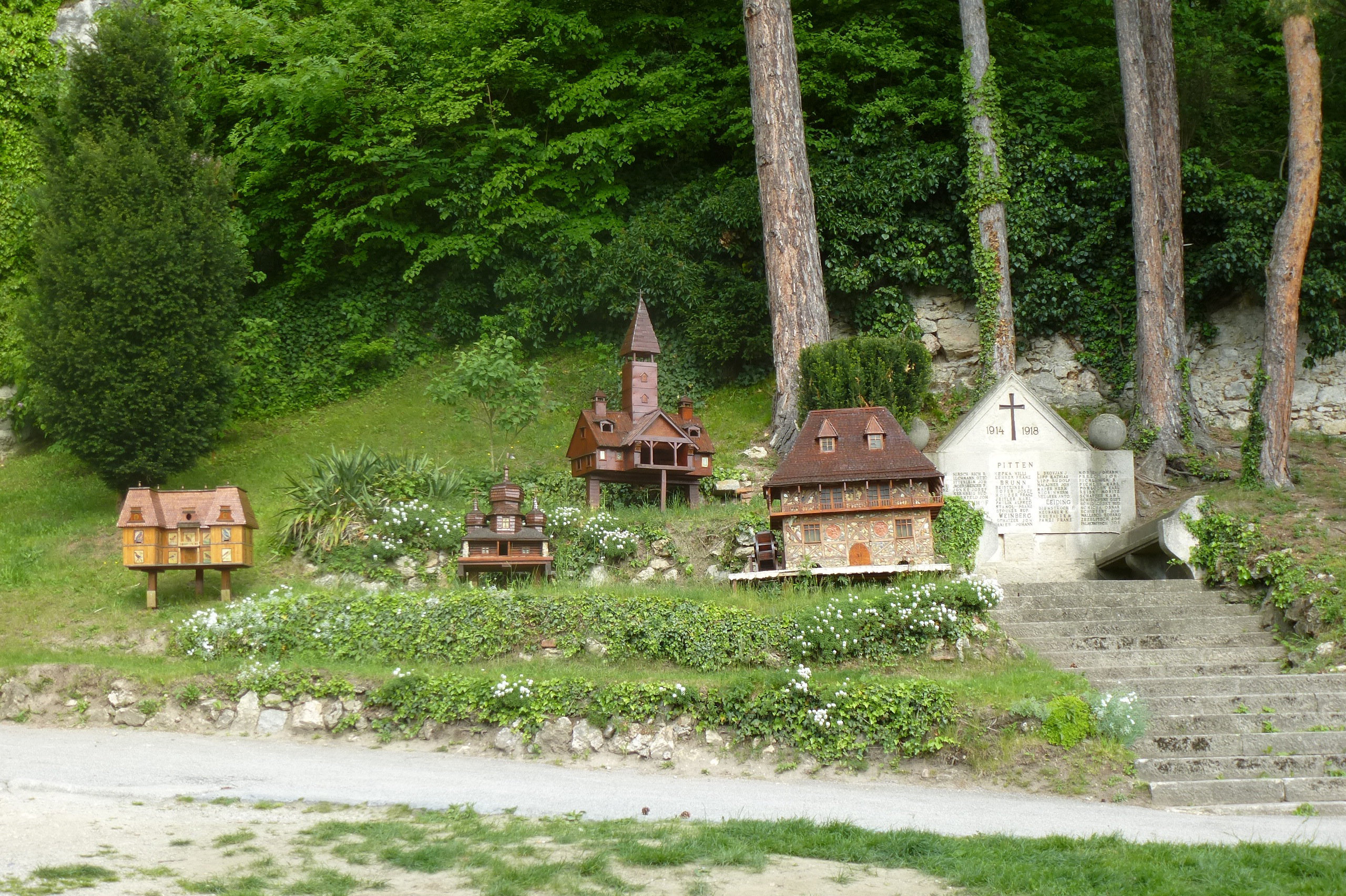 Sculptures by Pawel and Monika Stawoski